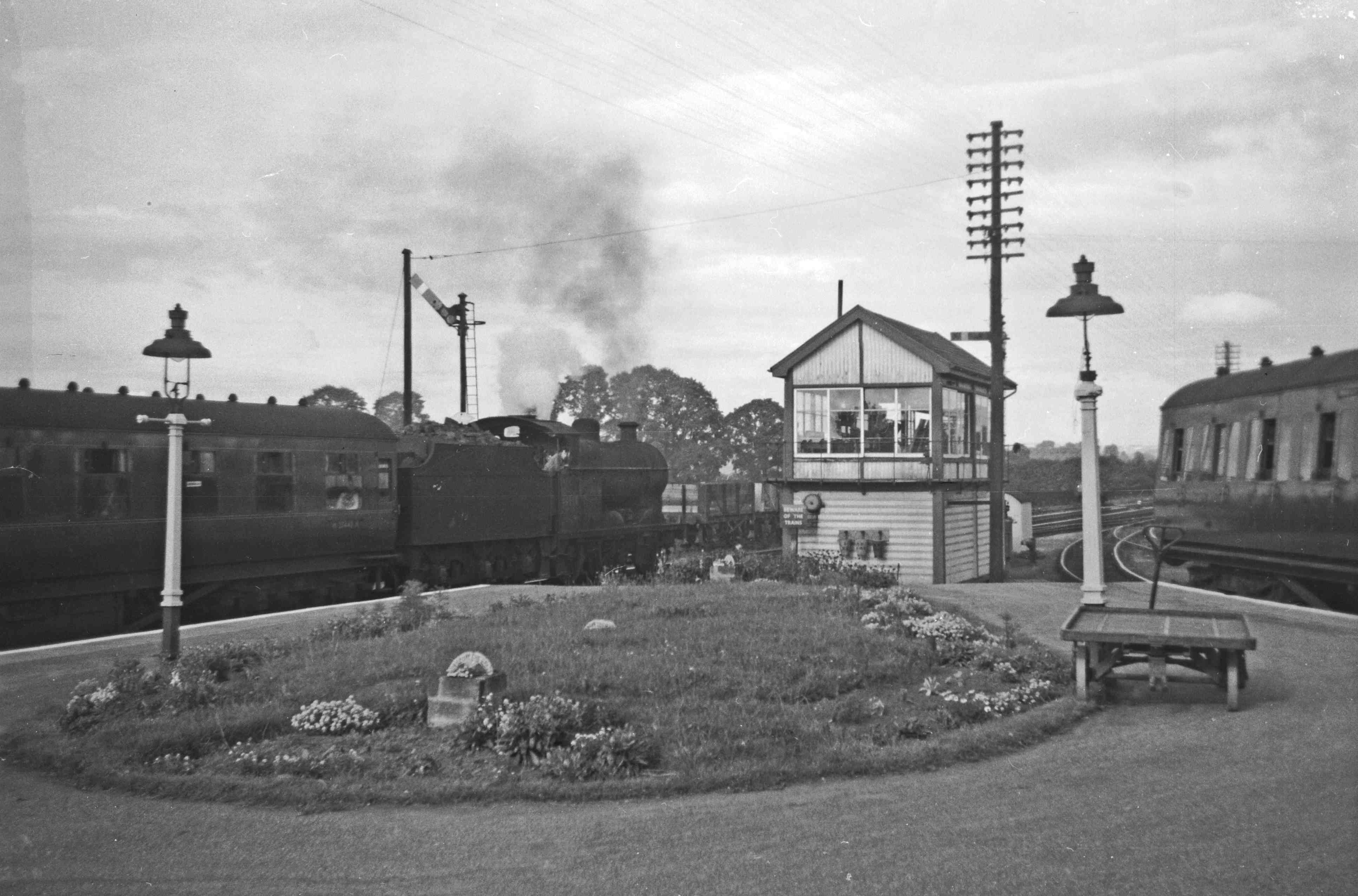 Coaley Junction station